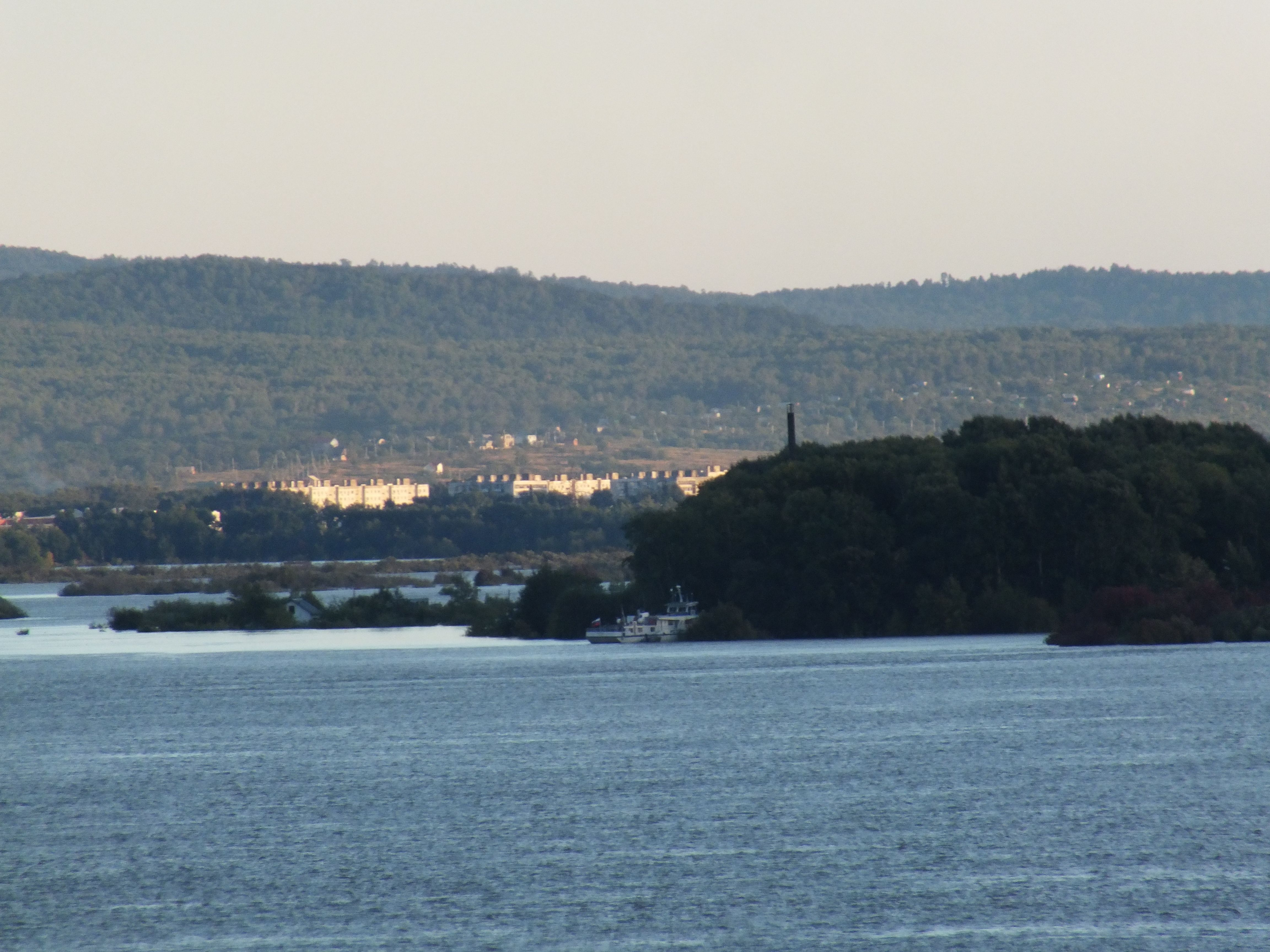 Amur River